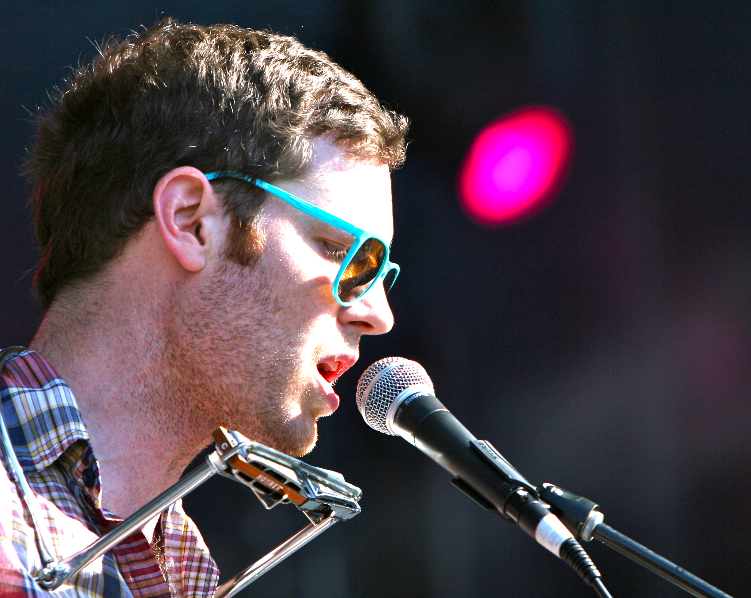 Canadian singer and songwriter Chad VanGaalen at Primavera Sound.